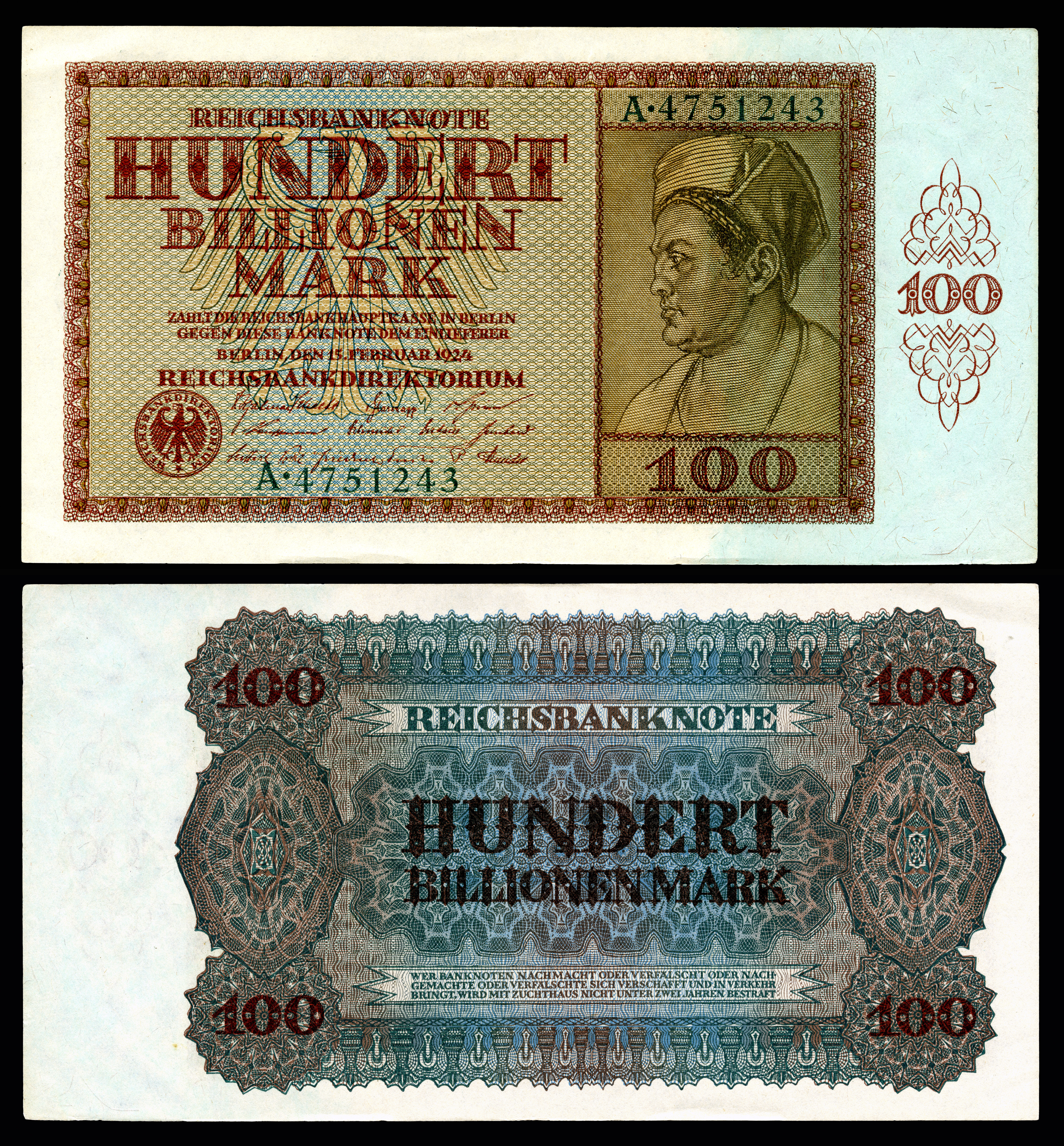 German Papiermark of the Weimar Republic, post World War I hyperinflation era (1921–24).